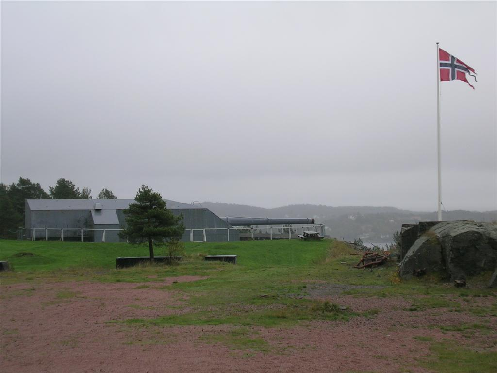 38cm cannon at Batterie Vara in Kristiandsand Norway